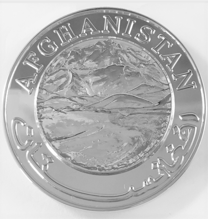 British service medal for civilians supporting Afghanistan's post 2001 development.